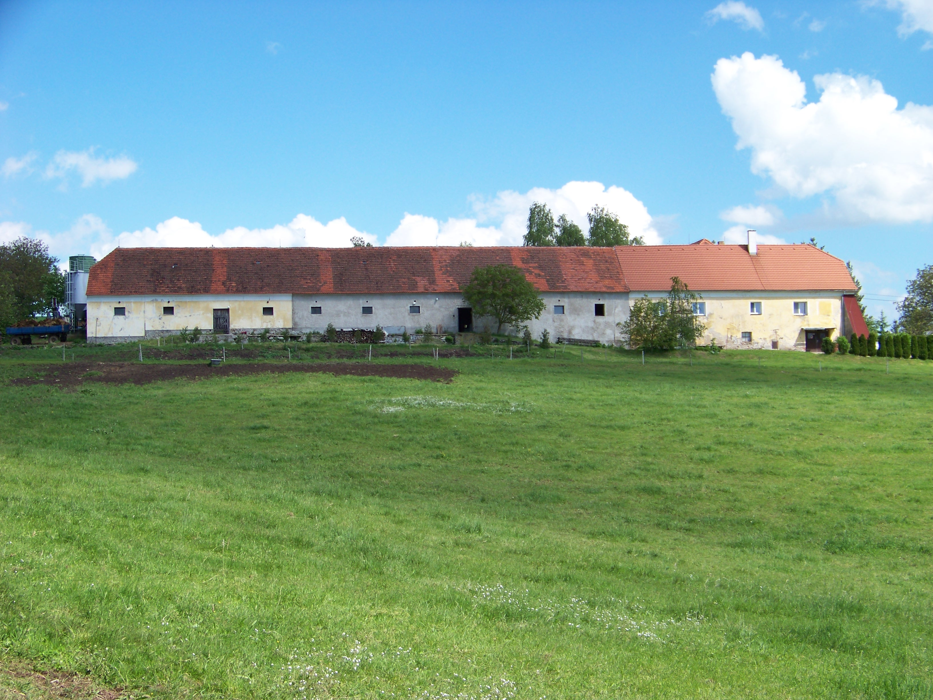 Jesenice-Vršovice, Příbram District, Central Bohemian Region, the Czech Republic. - OpenStreetMap(Info)